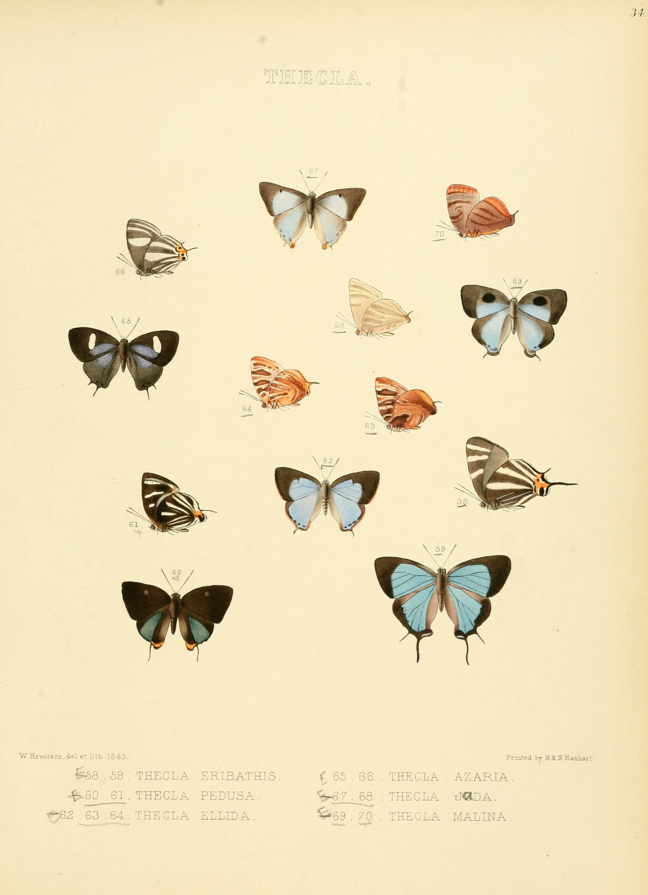 Eumaeini butterflies. 67/68: Jade-blue Hairstreak, upperside and underwing of male.